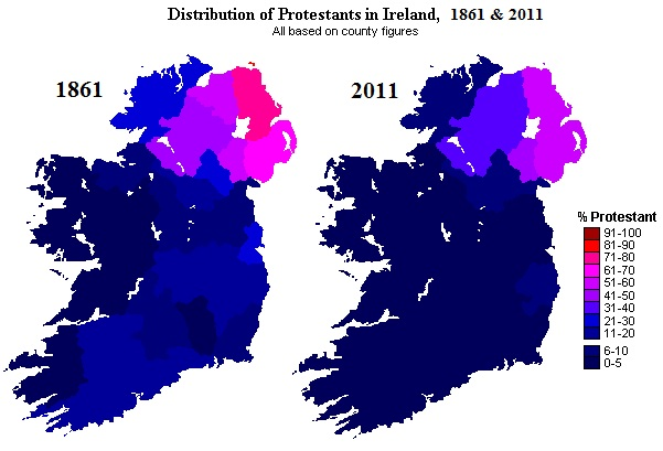 This is my own work, and is an adapted/updated version of work originally published by User:Big_Adamsky who granted anyone the right to use that work for any purpose, without any conditions